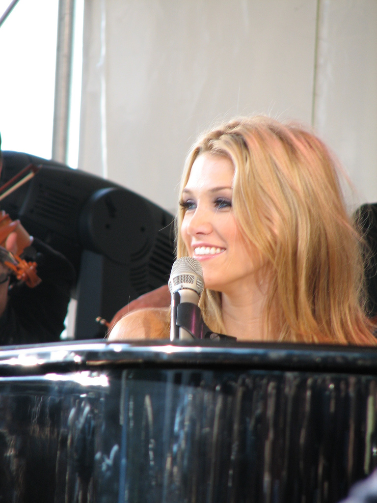 Delta Goodrem | Fed Square, Melbourne | 27th November 2007